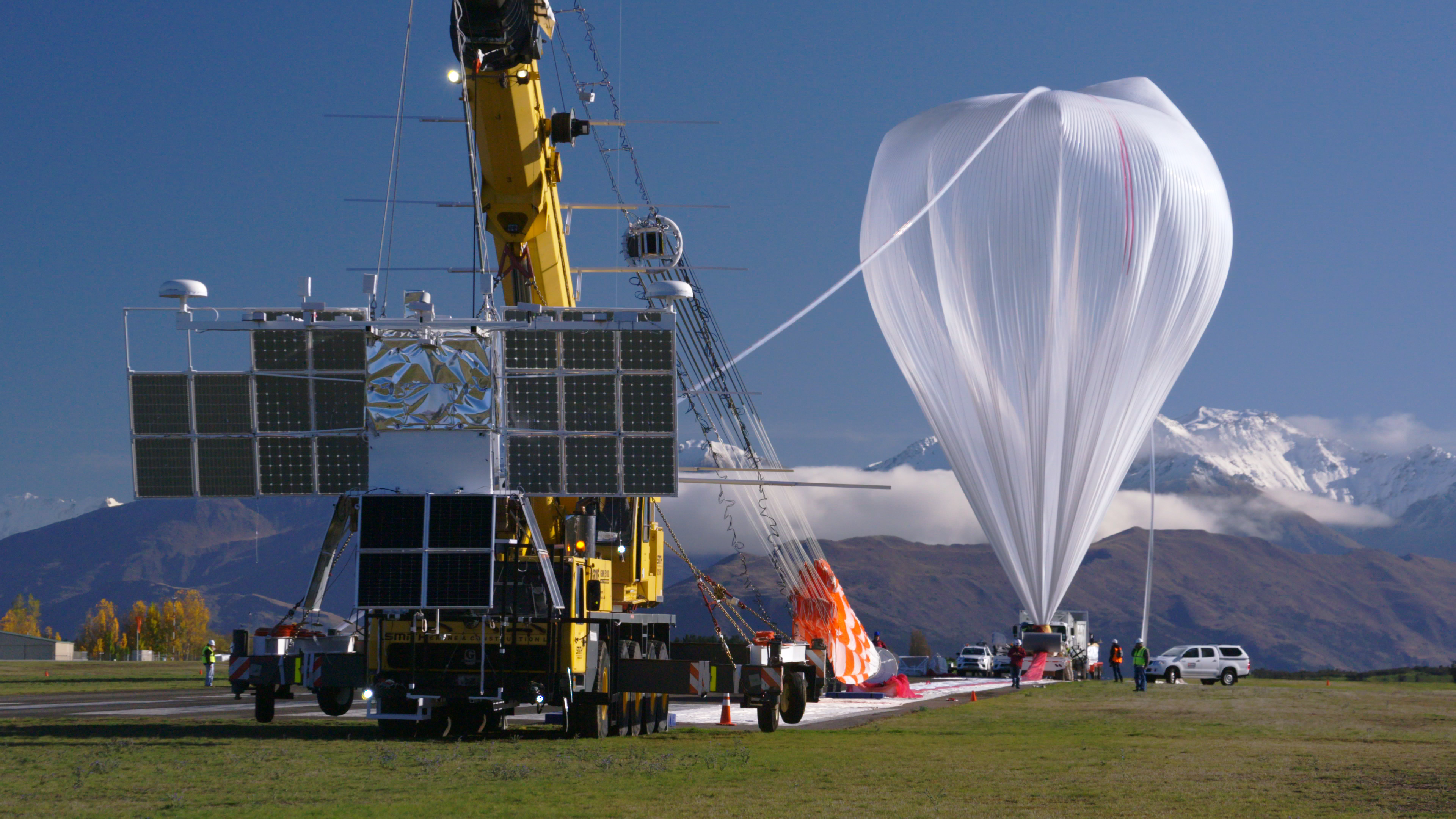 NASA successfully launched a super pressure balloon from Wanaka Airport, New Zealand, on Tuesday, May 17, on a potentially record-breaking, around-the-world test flight! The purpose of the flight is to test and validate the super pressure balloon technology with the goal of long-duration flight (100+ days) at mid-latitudes. In addition, the gondola is carrying the Compton Spectrometer and Imager (COSI) gamma-ray telescope as a mission of opportunity. Two hours and 8 minutes after lift-off, the 532,000-cubic-meter (18.8-million-cubic-foot) balloon reached its operational float altitude of 33.5 kilometers (110,000 feet) flying a trajectory taking it initially westward through southern Australia before entering into the eastward flowing winter stratospheric cyclone. NASA estimates the balloon will circumnavigate the globe about the southern hemisphere’s mid-latitudes once every one to three weeks, depending on wind speeds in the stratosphere. Read more: NASA Super Pressure Balloon Begins Globetrotting Journey